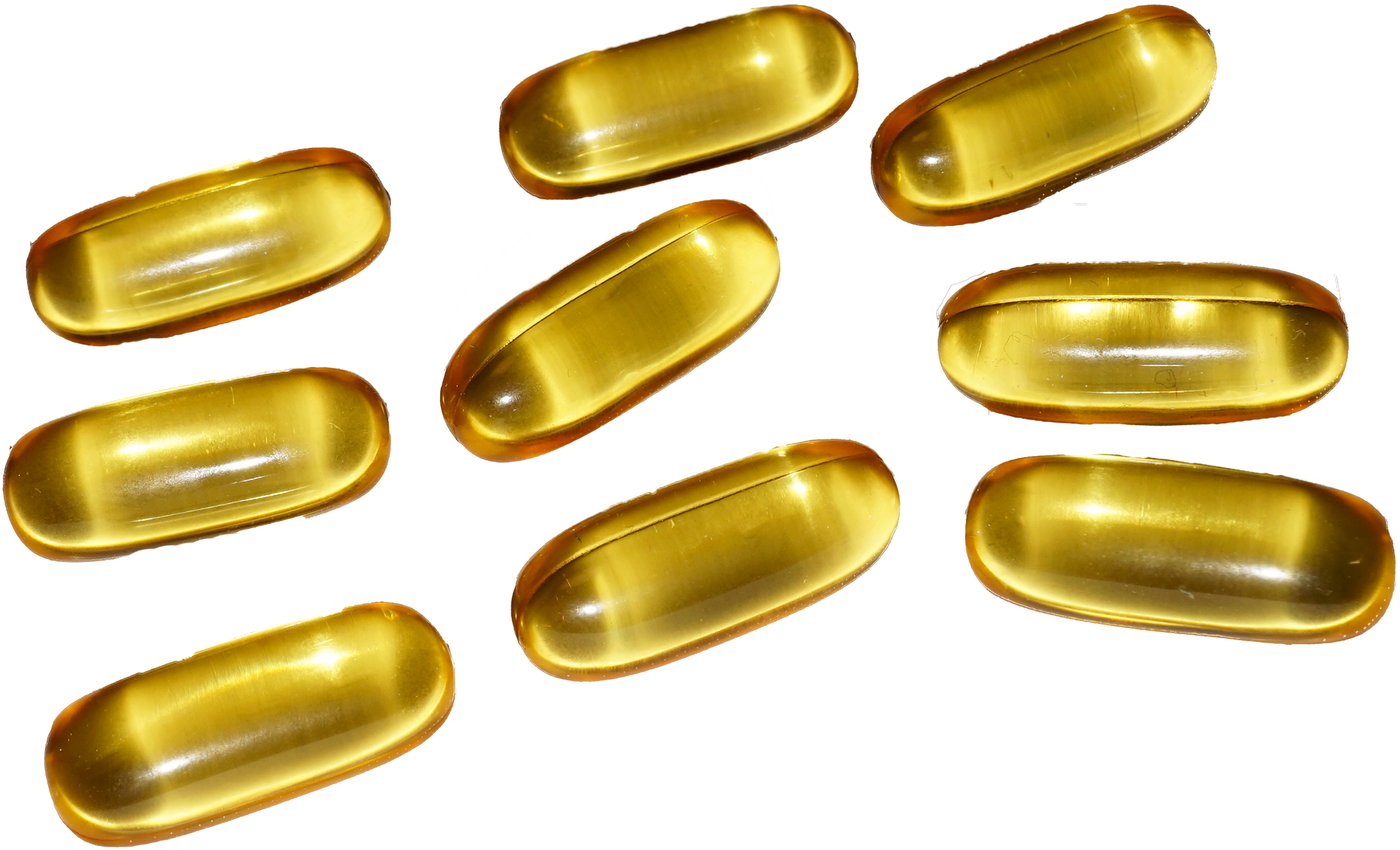 Möller’s cod liver oil capsules.